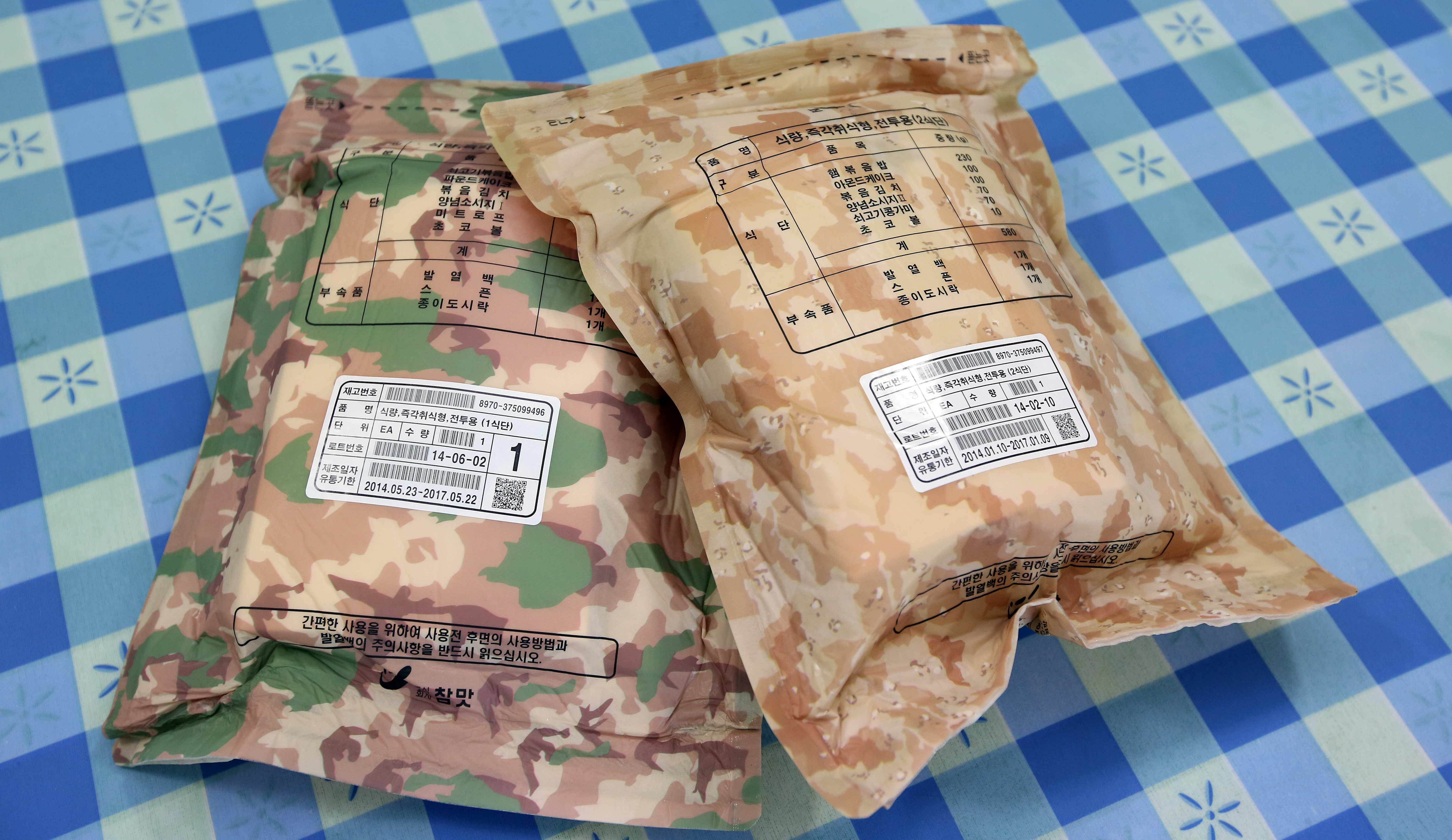 Military Guide Tour for Foreign Correspondents ‘Front-Line Troops’ Combat Ration May 20, 2015 Korea Army 8th Division, Cherwon, Gangwon-do Ministry of Culture, Sports and Tourism Korean Culture and Information Service ( Official Photographer : Jeon Han This official Republic of Korea photograph is being made available only for publication by news organizations and/or for personal printing by the subject(s) of the photograph. The photograph may not be manipulated in any way. Also, it may not be used in any type of commercial, advertisement, product or promotion that in any way suggests approval or endorsement from the government of the Republic of Korea.